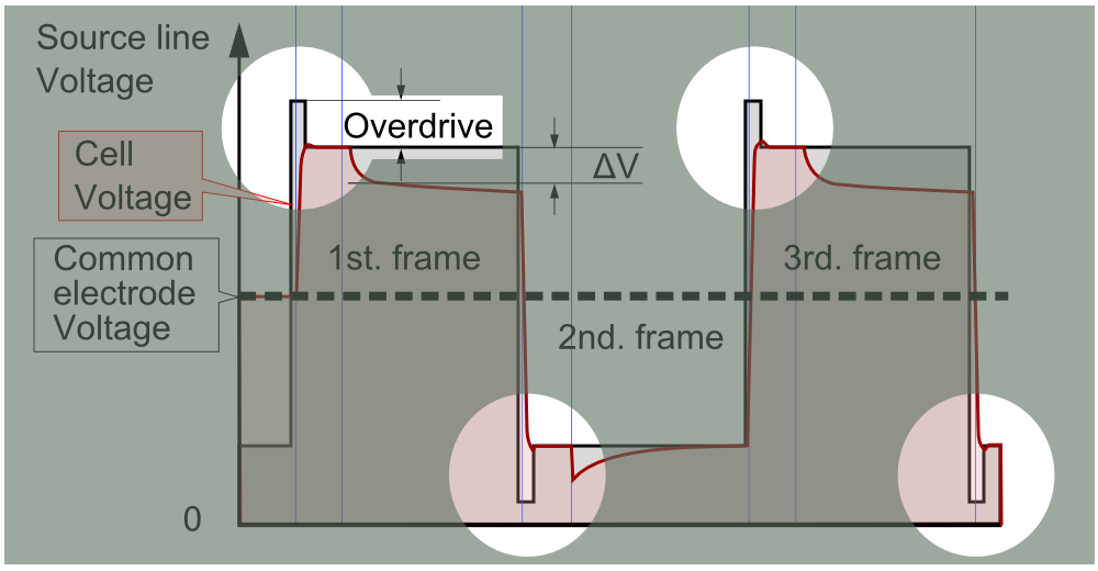 LCD Panel drive (Active, Voltage Overdrive)